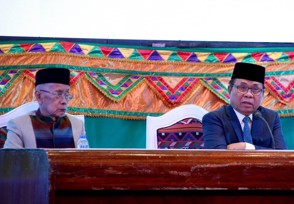 Sheikh Kalifa Usman Nando – Wali (left) Interim Chief Minister Al-Hajj Murad Ebrahim (right)